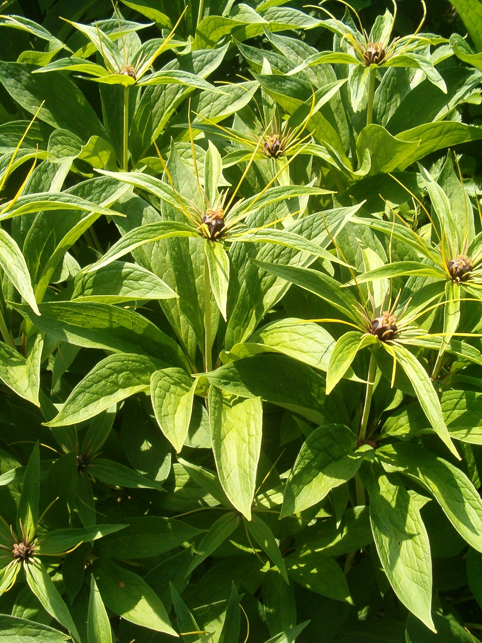 At Botanical Gardens Berlin-Dahlem Species Paris polyphylla